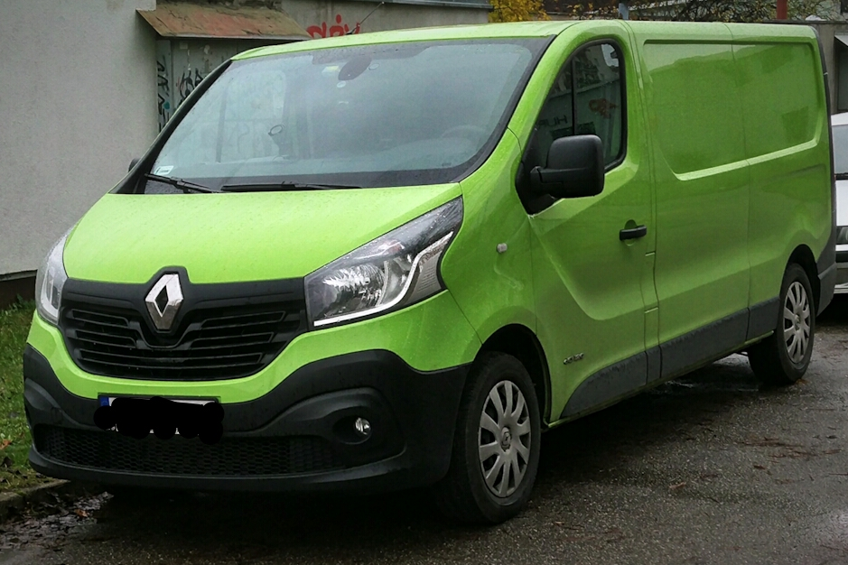 Renault Trafic III (2017)